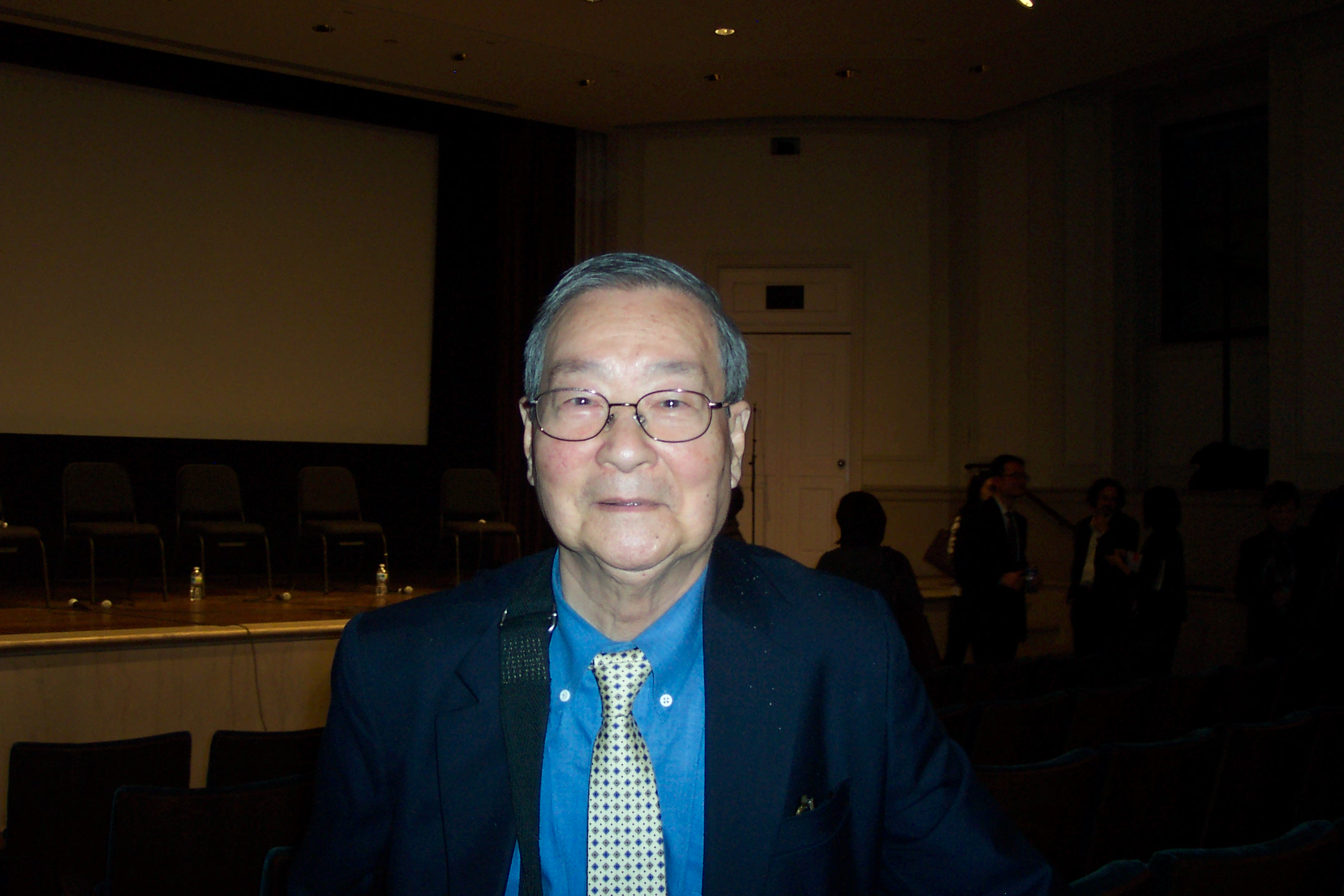 Dr. Chi Wang, President and Co-Chair of the US-China Policy Foundation; former Head of the Chinese Section at the Library of Congress at panel discussion on The Red Detchment of Women on 11 November 2012 at Freer Gallery.